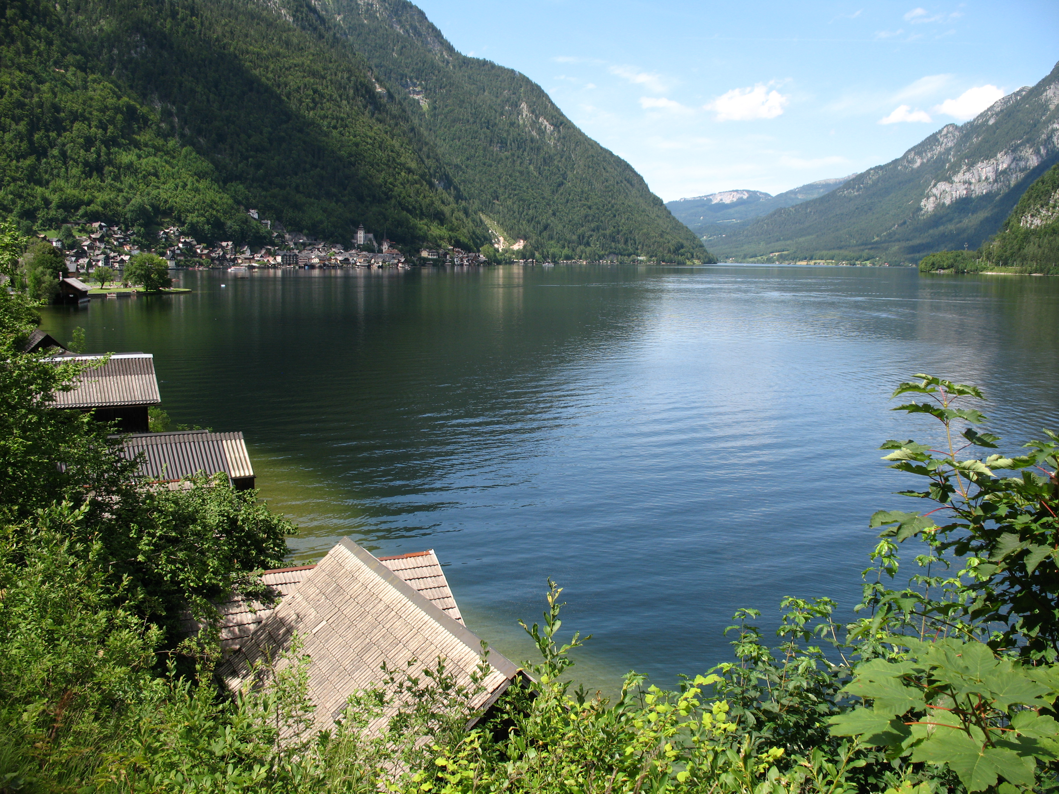 Lake Hallstatt, view from south onto Hallstatt, Austria